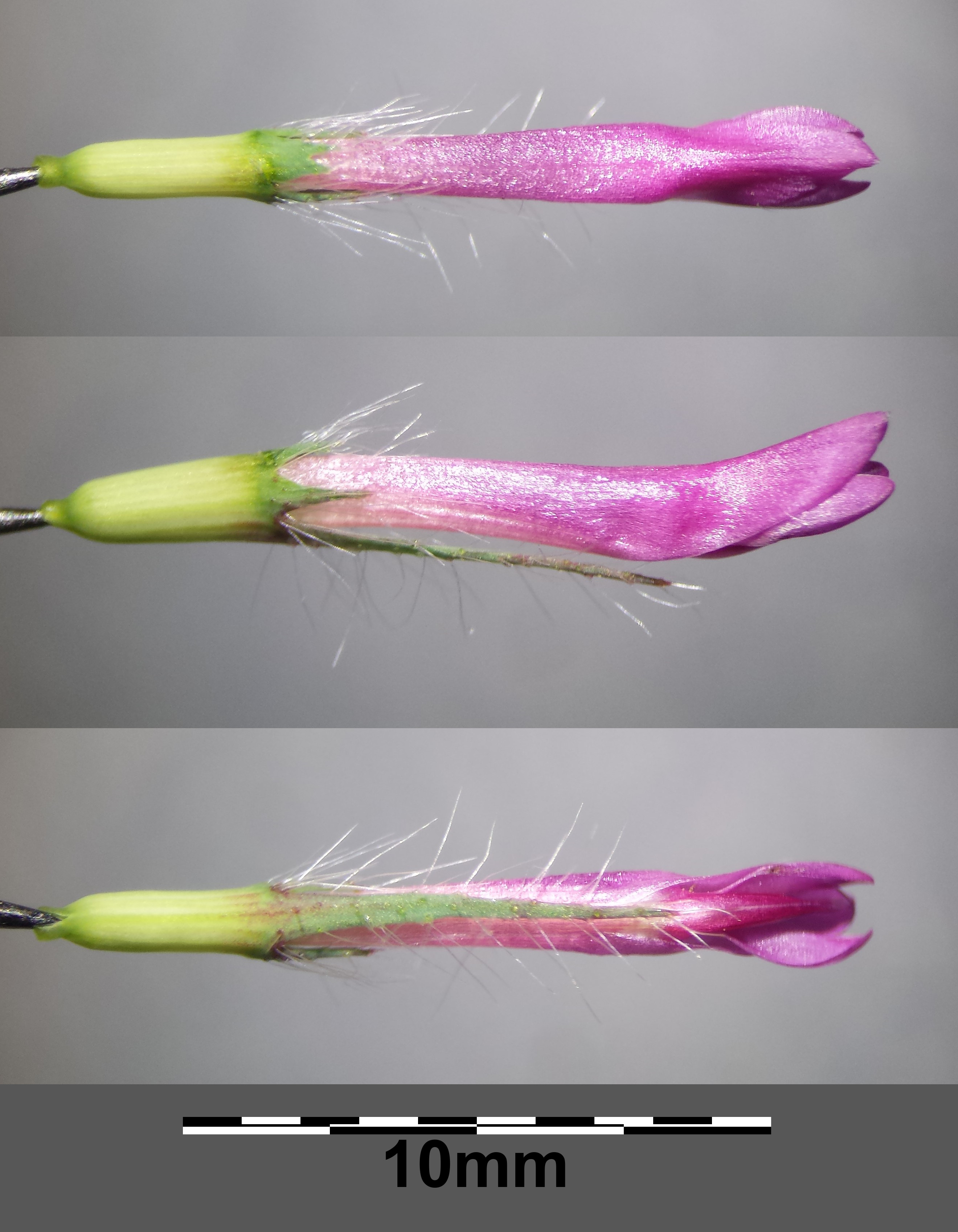 Flower Taxonym: Trifolium rubens ss Fischer et al. EfÖLS 2008 ISBN 978-3-85474-187-9 Location: Würfelberg near Bergau, district Hollabrunn, Lower Austria - ca. 275 m a.s.l. Habitat: border of a shrubbery